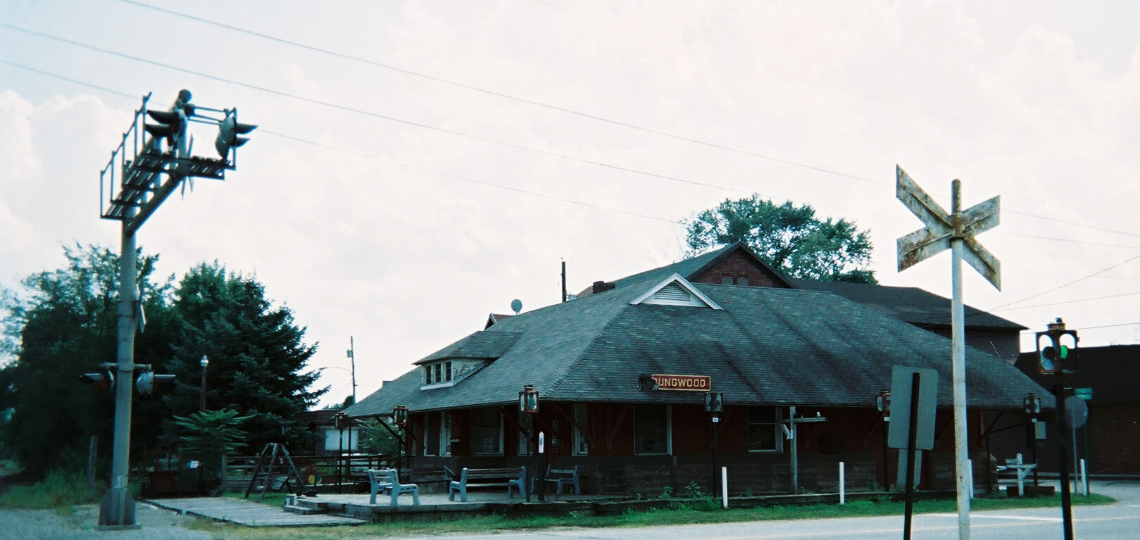 Former station of the Pennsylvania Railroad at 1 Depot Street, Youngwood, Pennsylvania, now used by the Youngwood Historical and Railroad Museum.